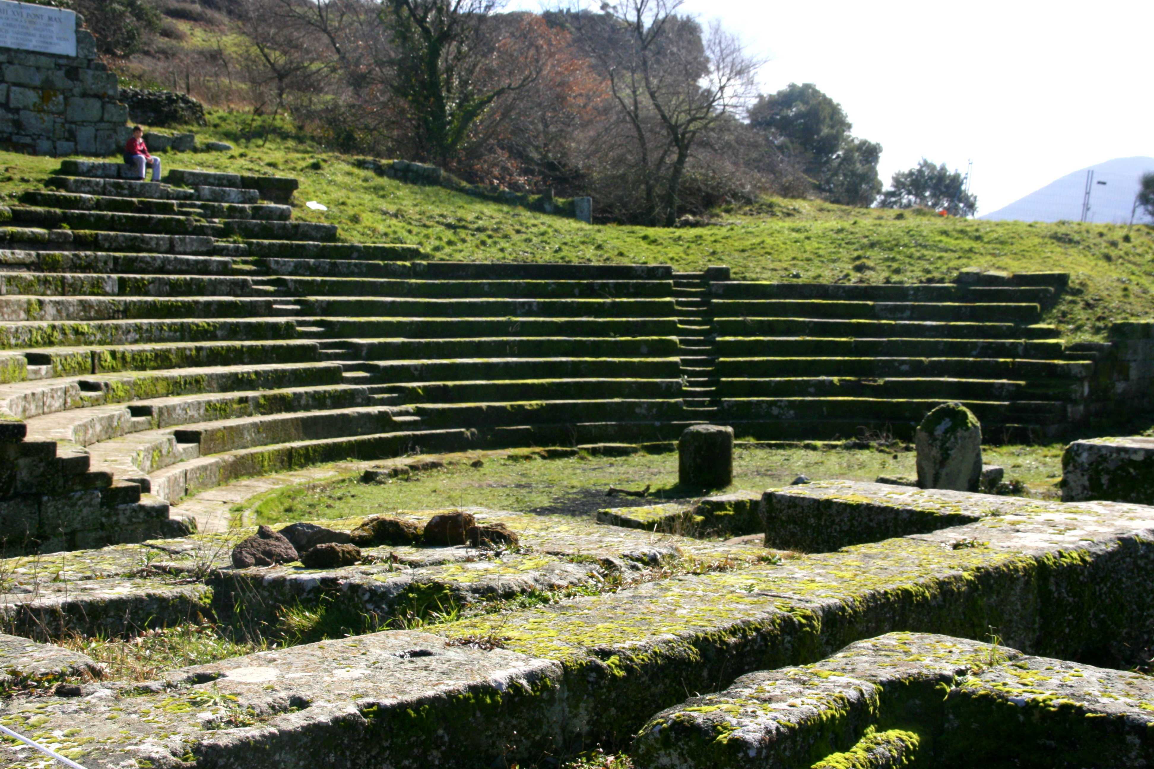 A view of the theatre at the ruins of the Roman city of Tusculum in the Castelli Romani, south of Rome